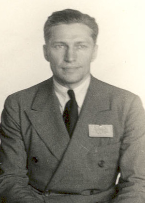 Eight of the twelve members of the National Advisory Committee for Aeronautics attending the 9th Annual Aircraft Engineering Research Conference posed for this photograph at Langley Field, Virginia, on May 23, 1934. Those pictured are (left to right): Brig. Gen. Charles A. Lindbergh, USAFR; Vice Admiral Arthur B. Cook, USN; Charles G. Abbot, Secretary of the Smithsonian Institution; Dr. Joseph S. Ames, Committee Chairman; Orville Wright; Edward P. Warner, Fleet Admiral; Ernest J. King, USN; Eugene L. Vidal, Director, Bureau of Air Commerce.